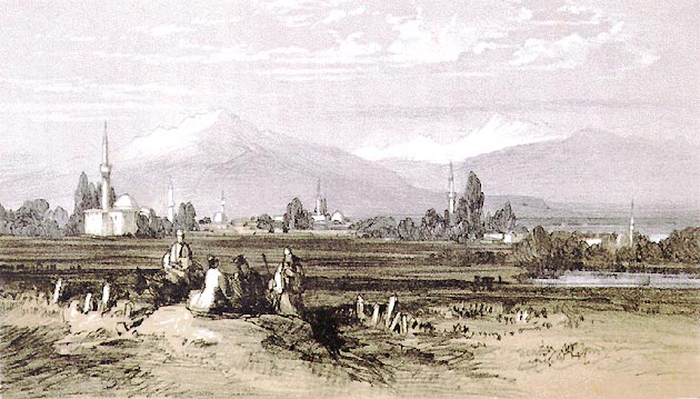 Lithograph with a view of Yianitsa (Giannitsa), an Ottoman city, famous for its tobacco